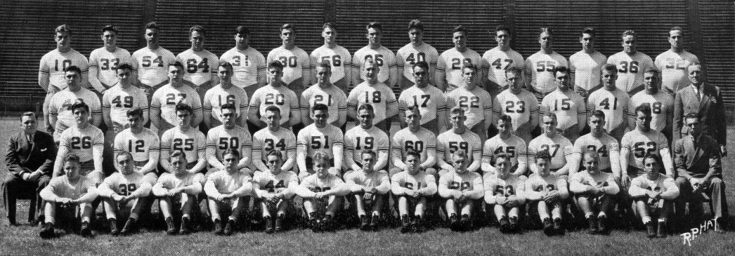 The Pittsburgh Panther undefeated National Championship team coached by Jock Sutherland. Members included in the picture are:Horton, Yocos, Kapurka, Soroka, Shea, Fleming, Herlinger, Shord, Stapulis, Goodell, Cassiano, Dalle Tezze, GoldbergBarr, Kish, Daddio, Urban, Curry, Peace, Schmidt, Raskowski, Morrow, Klein, C. Cambal, Richards, Patrick, Shaw, GrossmanMusulin, Walton, Michelosen, Adams, Lezouski, Stebbins, Asavitch, Merkovsky, Hensley, Souchak, Delich, Miller, Etze, SutherlandPetro, Farkas, J. Cambal, Corace, Chickerneo, Naric, Holt, Spotovich, Hafer, Dannies, Fullerton, Berger, Jackman, Kristufek, Dickinson